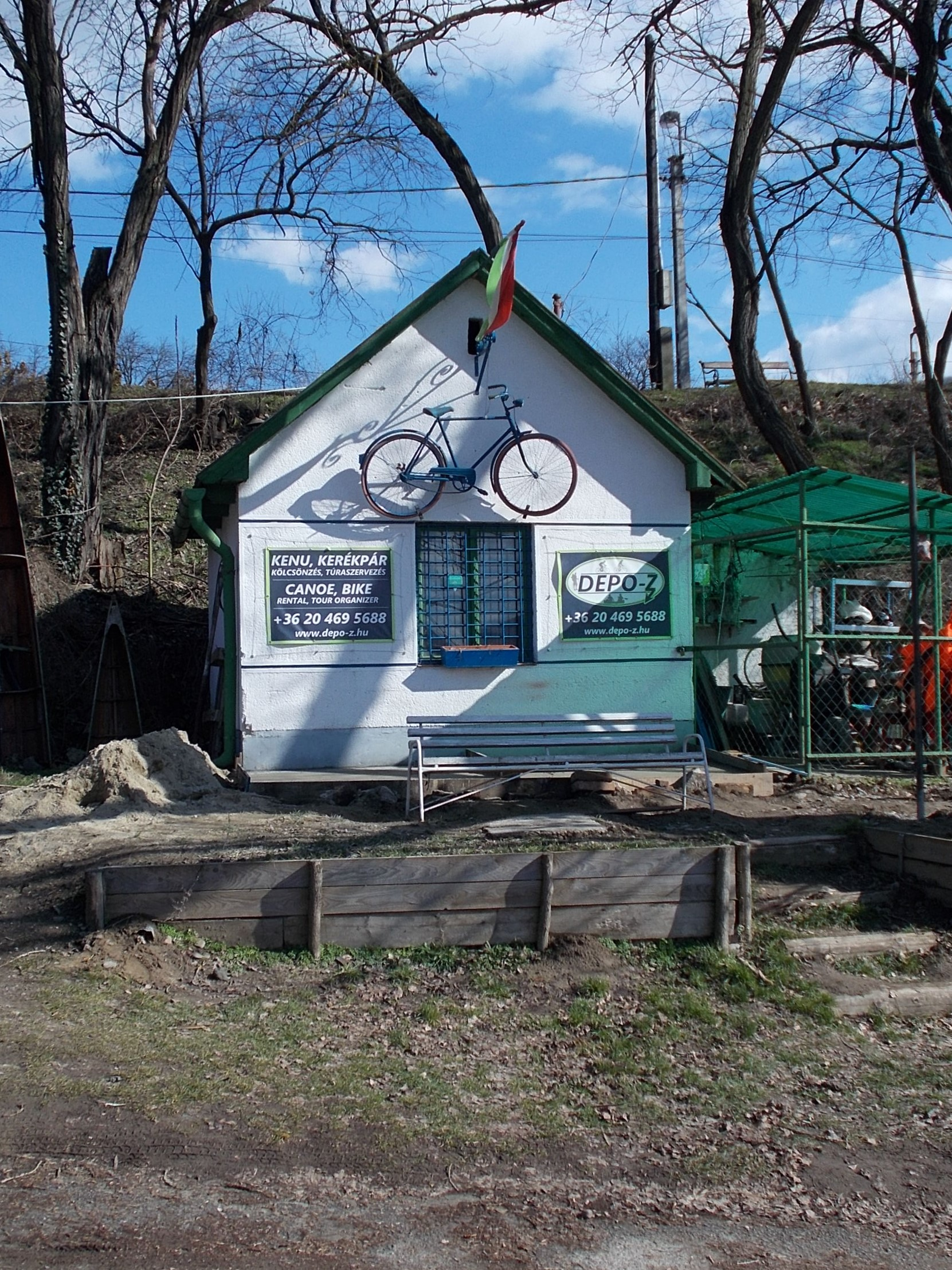 Canoe and bike rental near to the boat station - Zebegény, Pest County, Hungary.